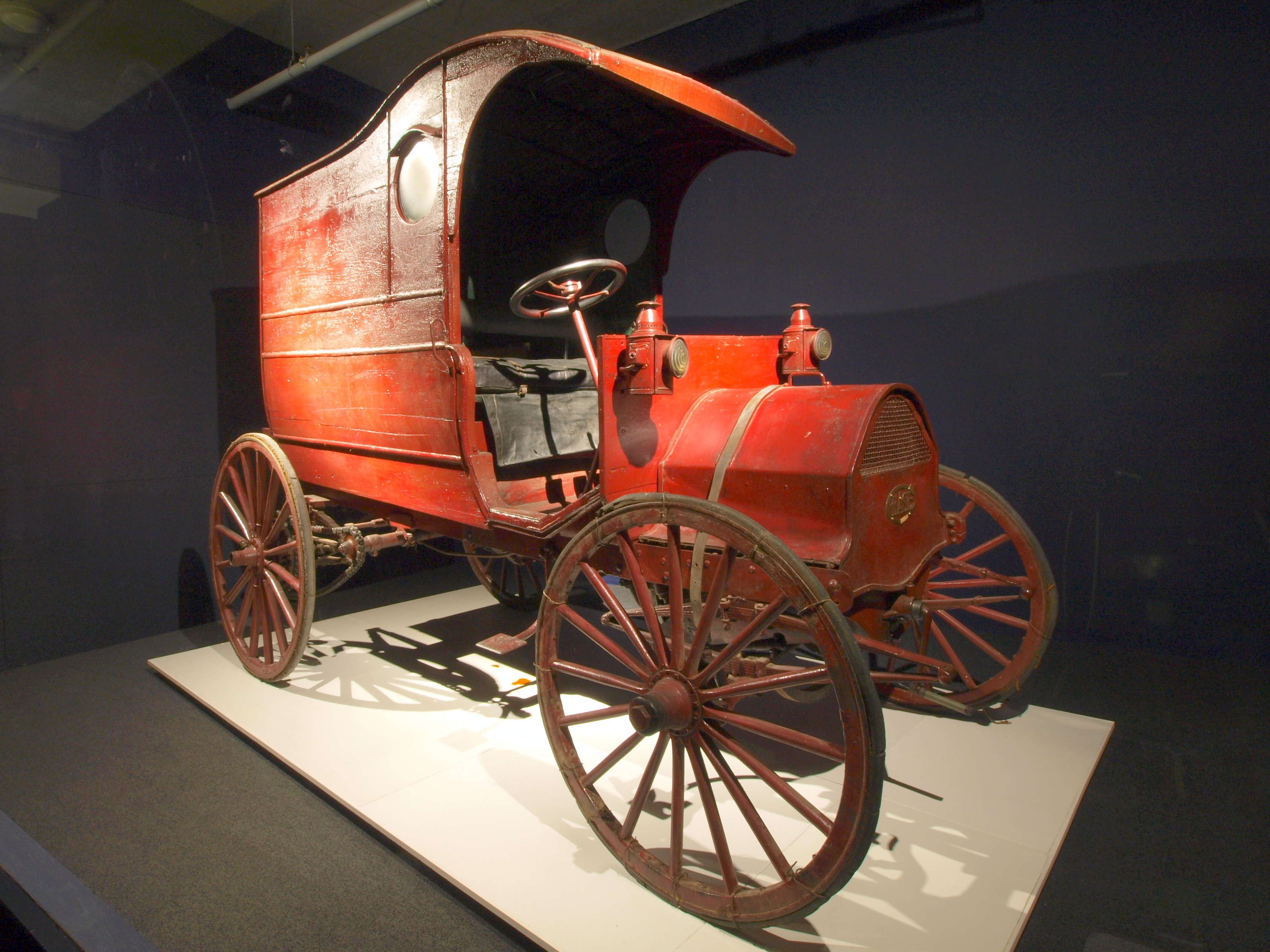 Photographed at the Louwman museum, The Netherlands.